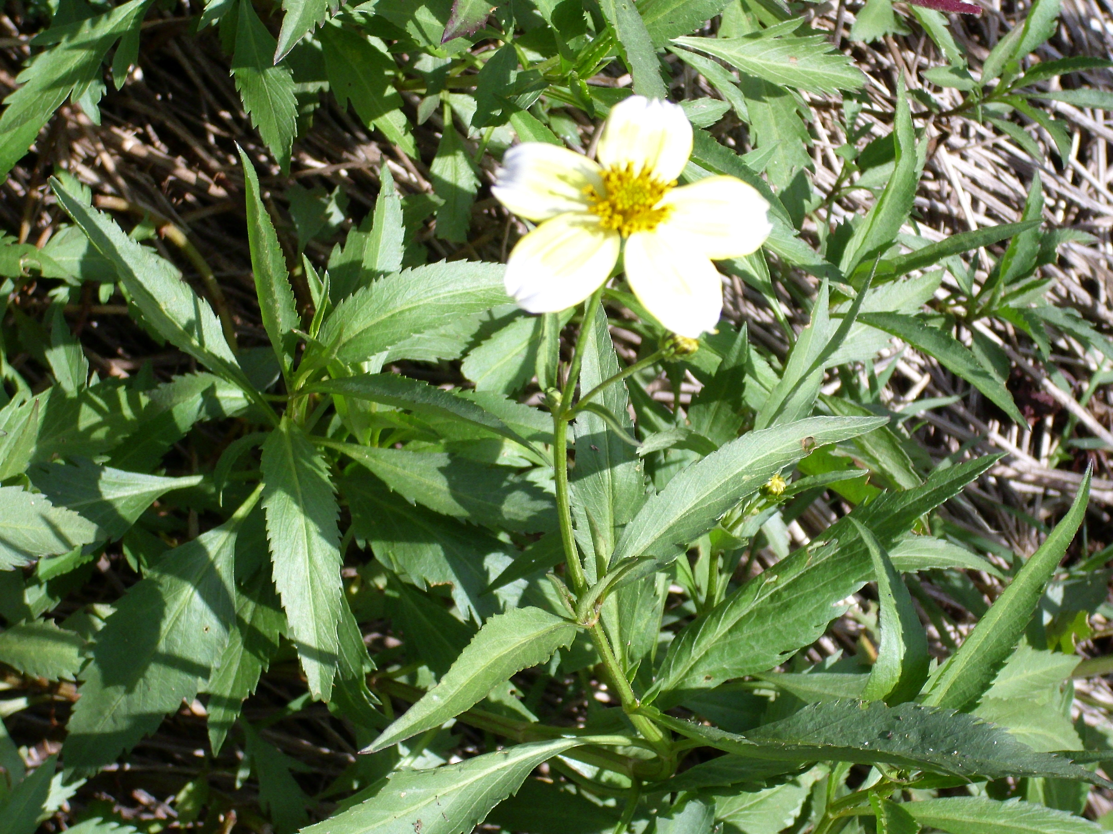 Bidens aurea invasive species in El Tamaral, Sierra Madrona, Spain